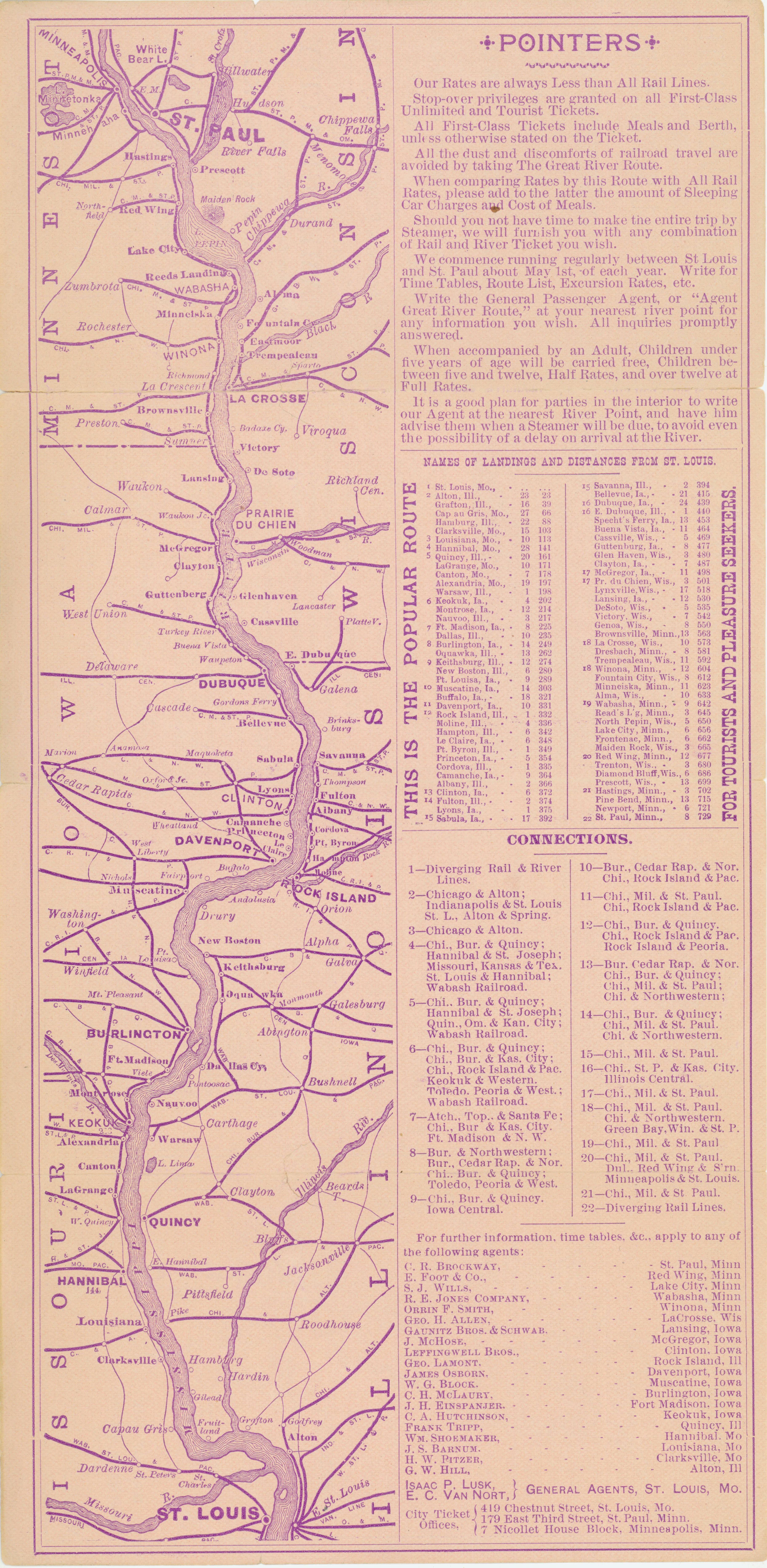 Includes information about rates and routes.Title: Advertisement for "The Great River Route" on the Diamond Jo Line Steamers and the St. Louis, St. Paul and Minneapolis Packet Co., 1890